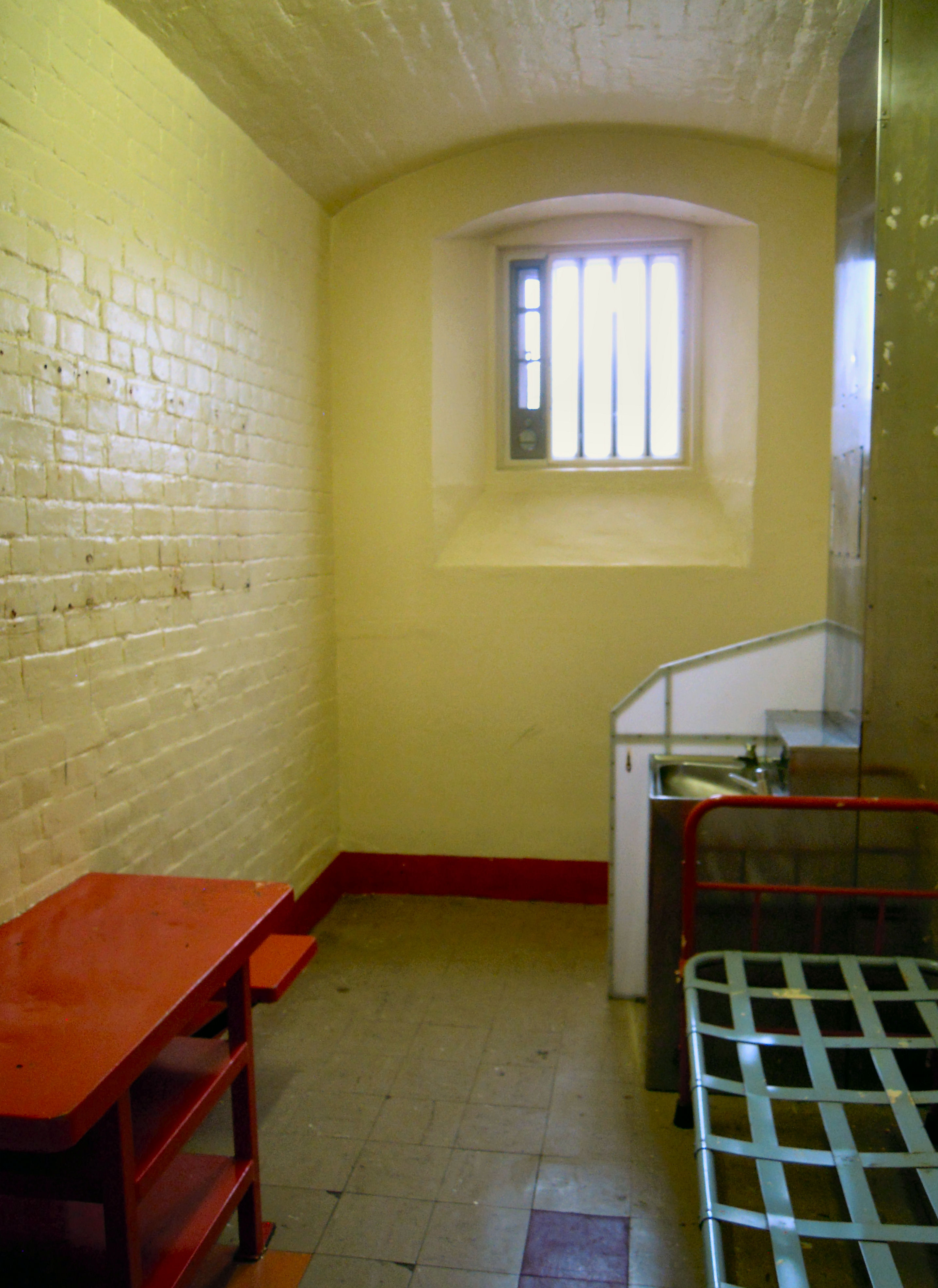 The prison cell of Oscar Wilde in Reading Gaol as it appeared in 2016